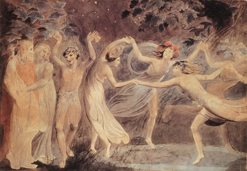 Oberon, Titania and Puck with Fairies Dancing